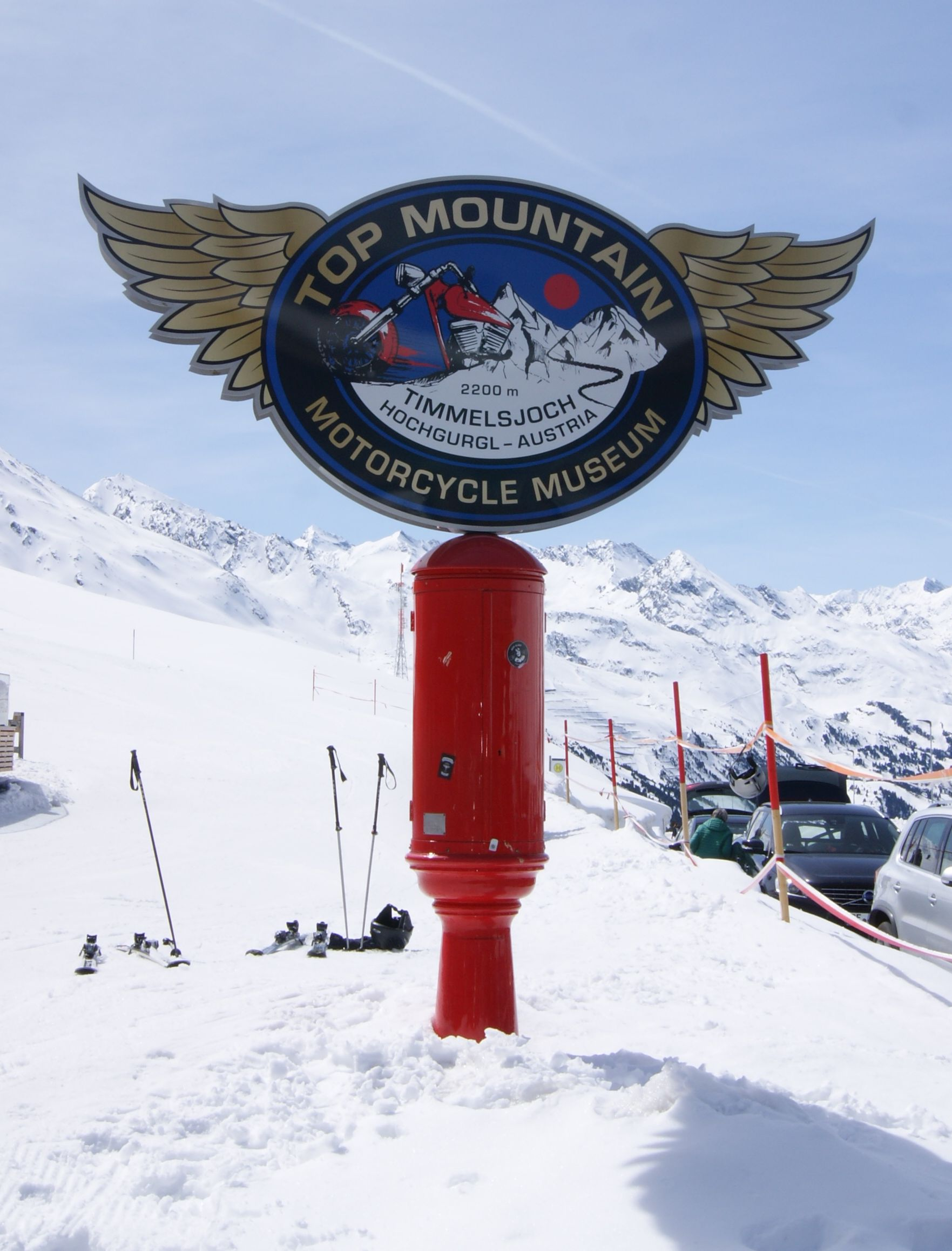 Top Mountain Motorcycle Museum in the Oetztal, Timmelsjoch.